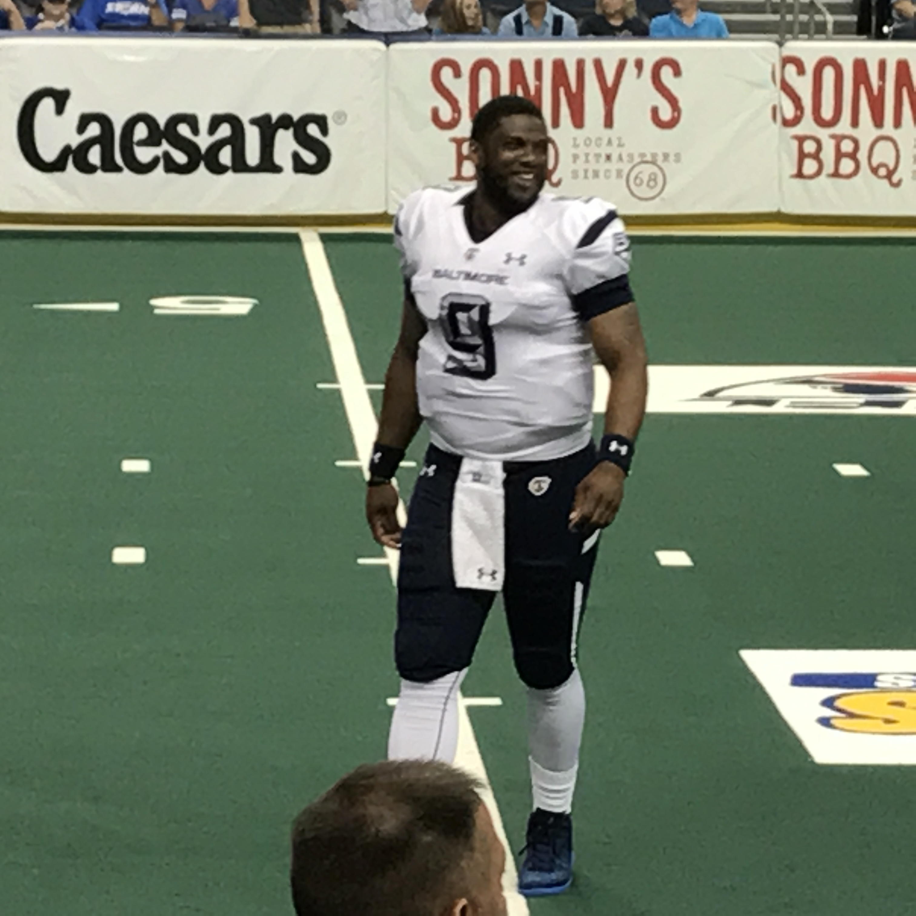 Shane Boyd with Baltimore